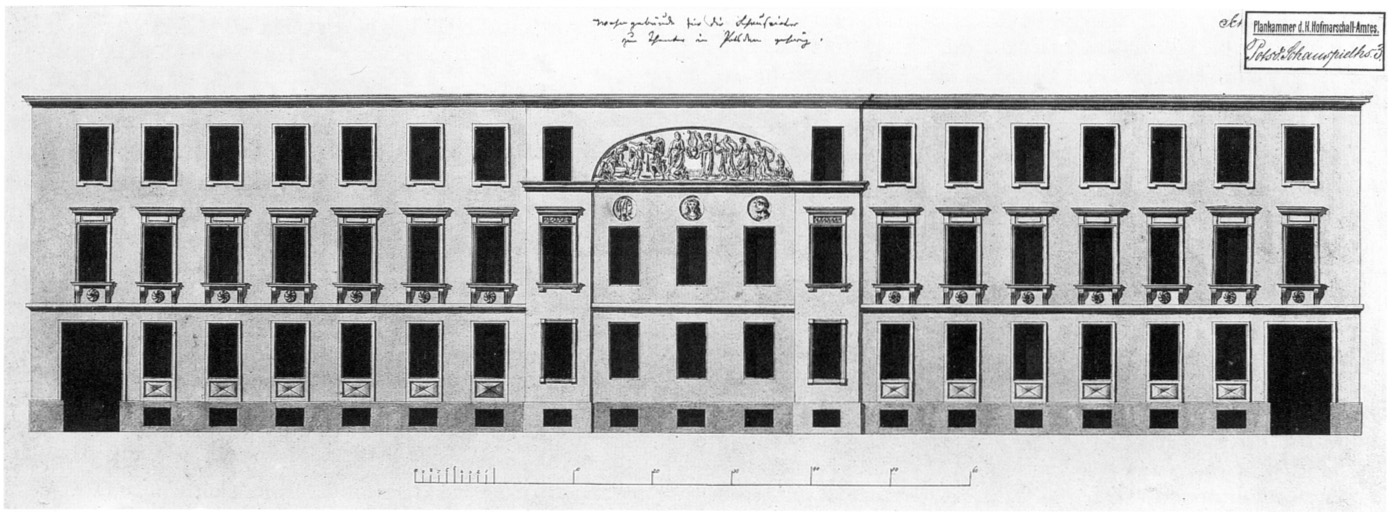 Actor's residence of the Royal Theatre in Potsdam, Posthofstraße 17. Design by Carl Gotthard Langhans and Michael Philipp Boumann. Elevation of the façade by Boumann 1796.